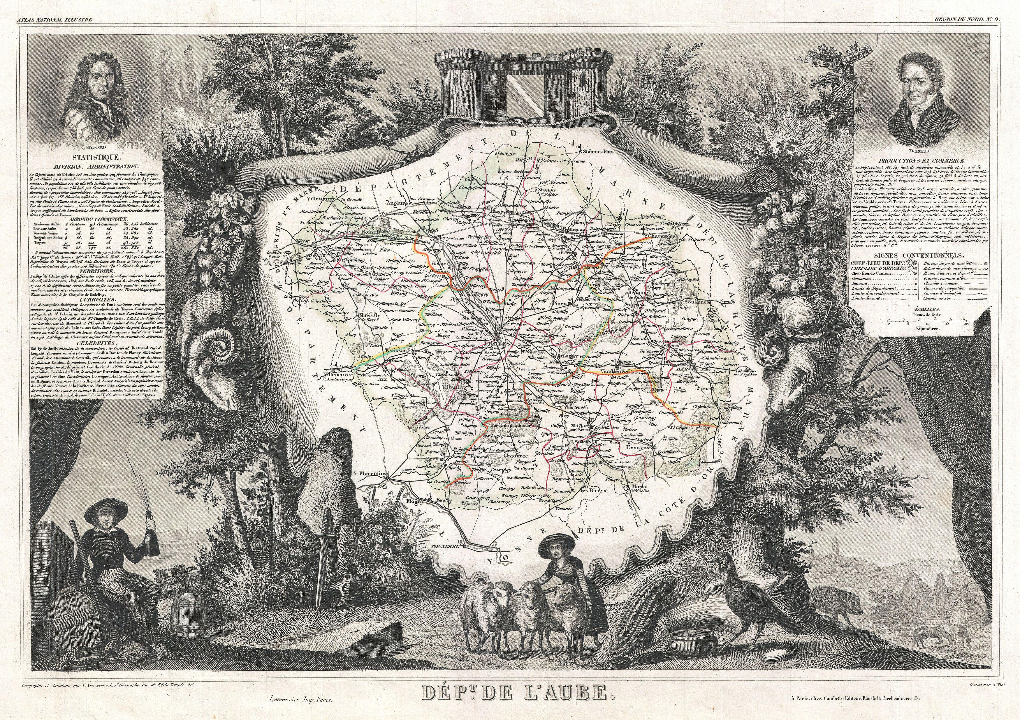 This is a fascinating 1857 map of the French department of Aube, France. This area of France is known for its production of Chaource, a soft and salted cheese. Aube is part of France's Champagne region. The whole is surrounded by elaborate decorative engravings designed to illustrate both the natural beauty and trade richness of the land. There is a short textual history of the regions depicted on both the left and right sides of the map. Published by V. Levasseur in the 1852 edition of his Atlas National de la France Illustree.